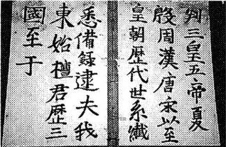 copy Dongmongsunseup, pen handwriting by Crown Prince Sado of Joseon in 1742